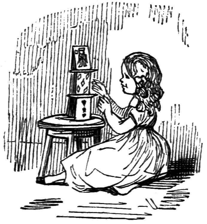 Untitled image from the novel. The number indicates the Djvu page number of the Wikisource transclusion.